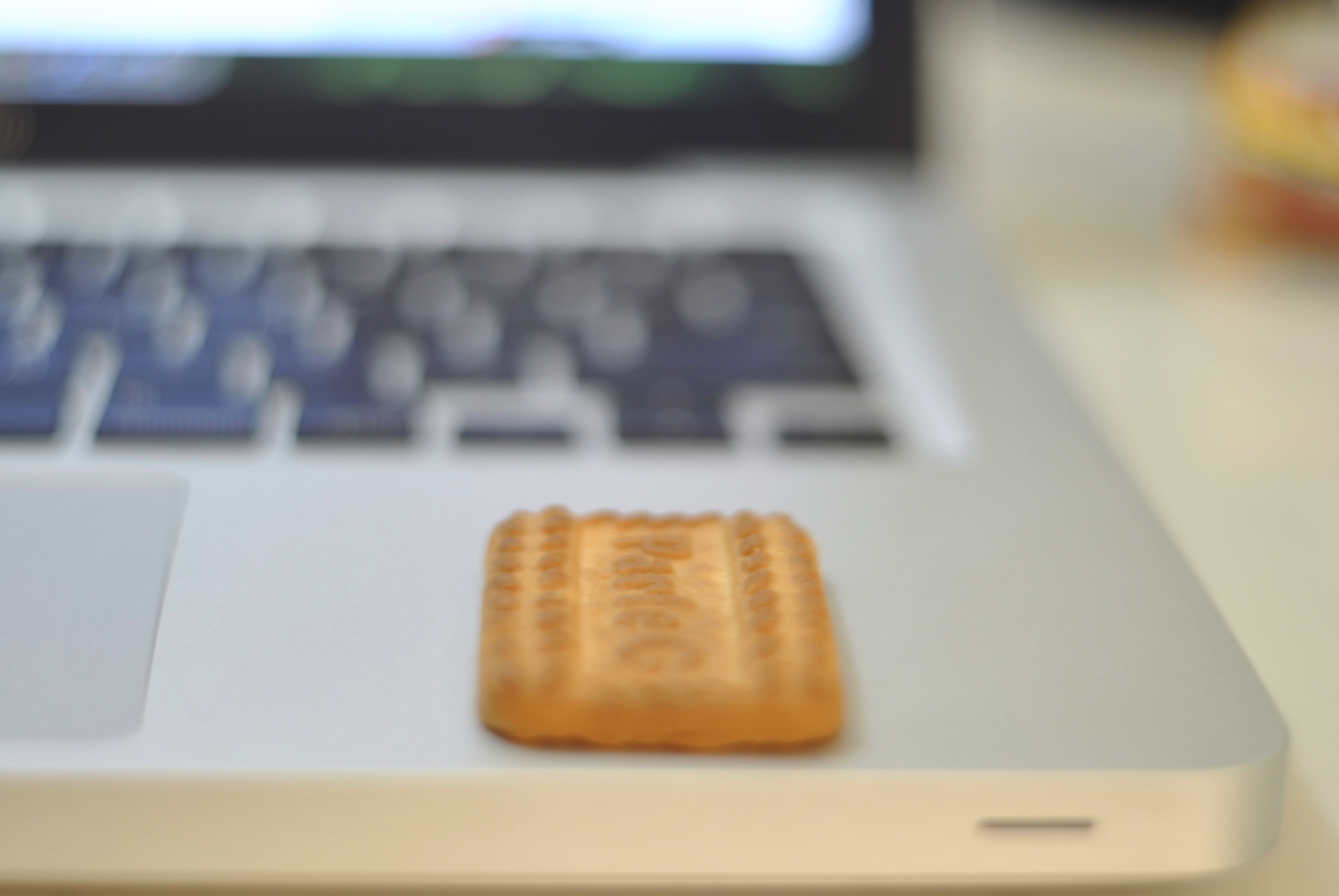 Parle-G is a brand of biscuits manufactured by Parle Products in India. As of 2011, it is the largest selling brand of biscuits in the world according to Nielsen.